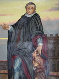 Devotional print with Ettore Vernazza, Genoese patrician founder of several hospitals for poor people